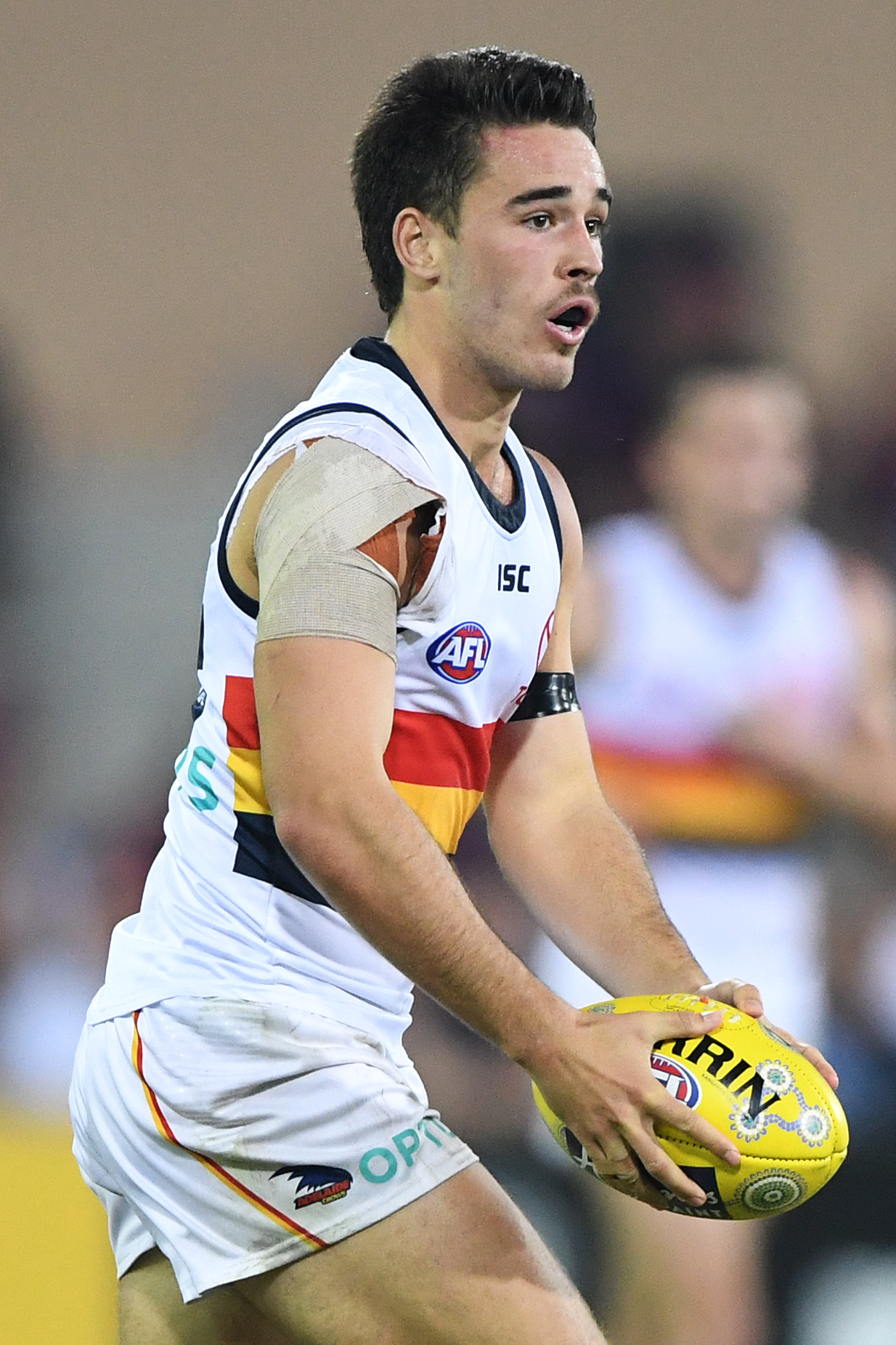 Lachlan Murphy of Adelaide during the 2019 AFL round 11 match between Melbourne and Adelaide at TIO Stadium on Saturday, 1 June 2019 in Darwin, Northern Territory.